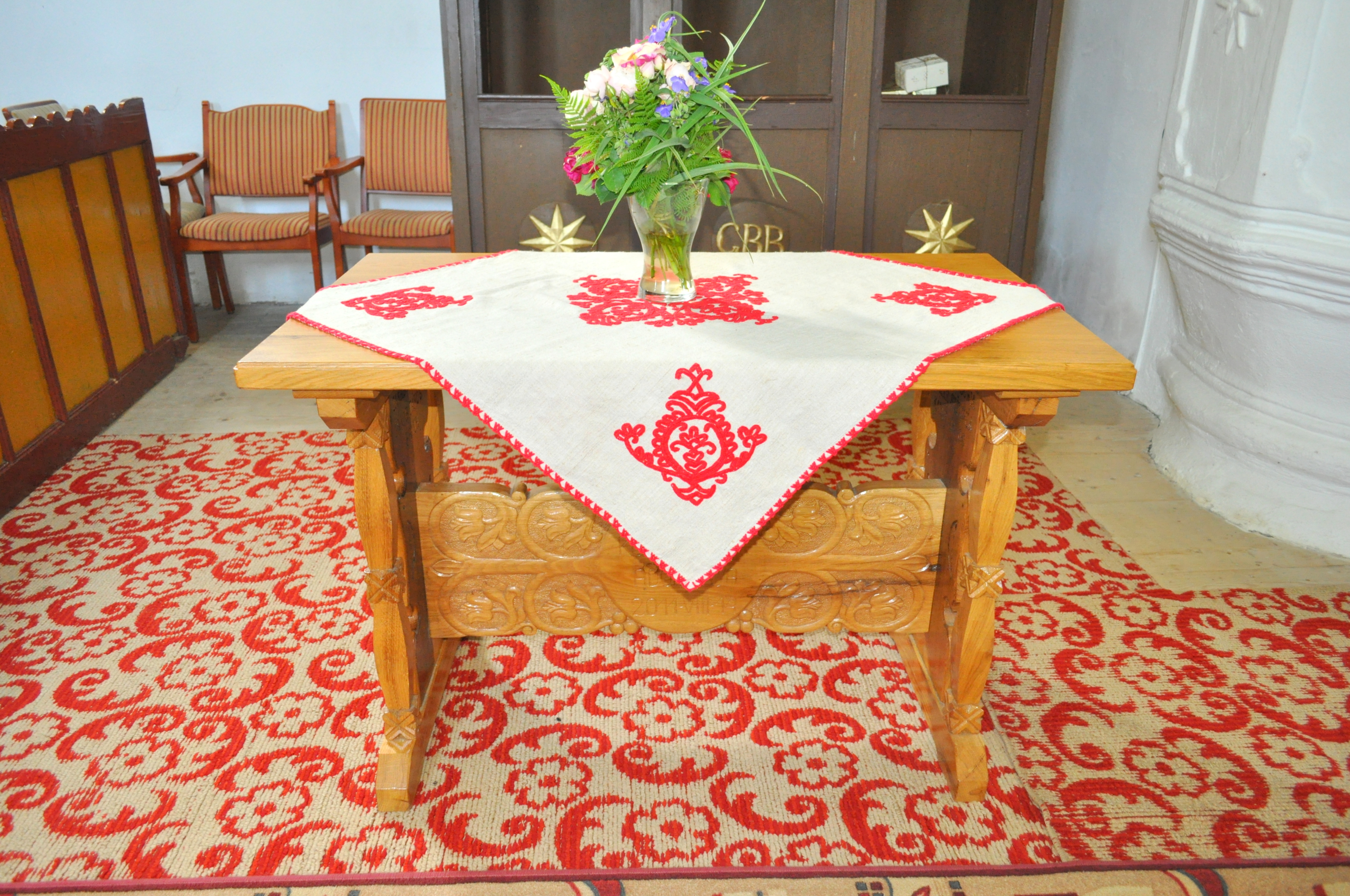 Reformed church in Alma, Sibiu county, Romania